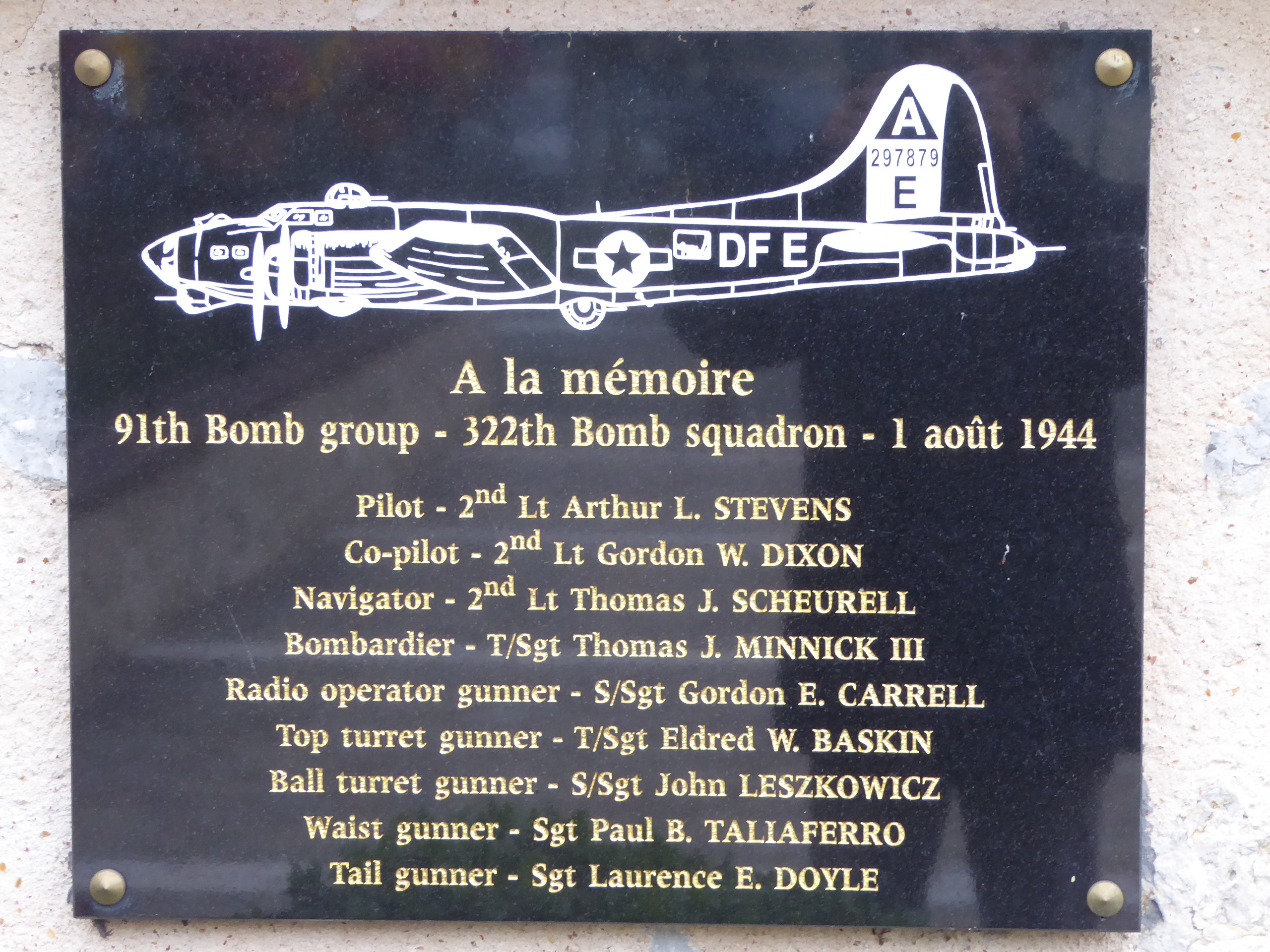 A la mémoire 91th Bomb group - 322th Bomb squadron - 1 août 1944 Arthur L. STEVENS Gordon W. DIXON Thomas J. SCHEURELL Thomas J. MINNICK III Gordon E. CARRELL Eldred W. BASKIN John LESZKOWICZ Paul B. TALIAFERRO Laurence E. DOYLE.